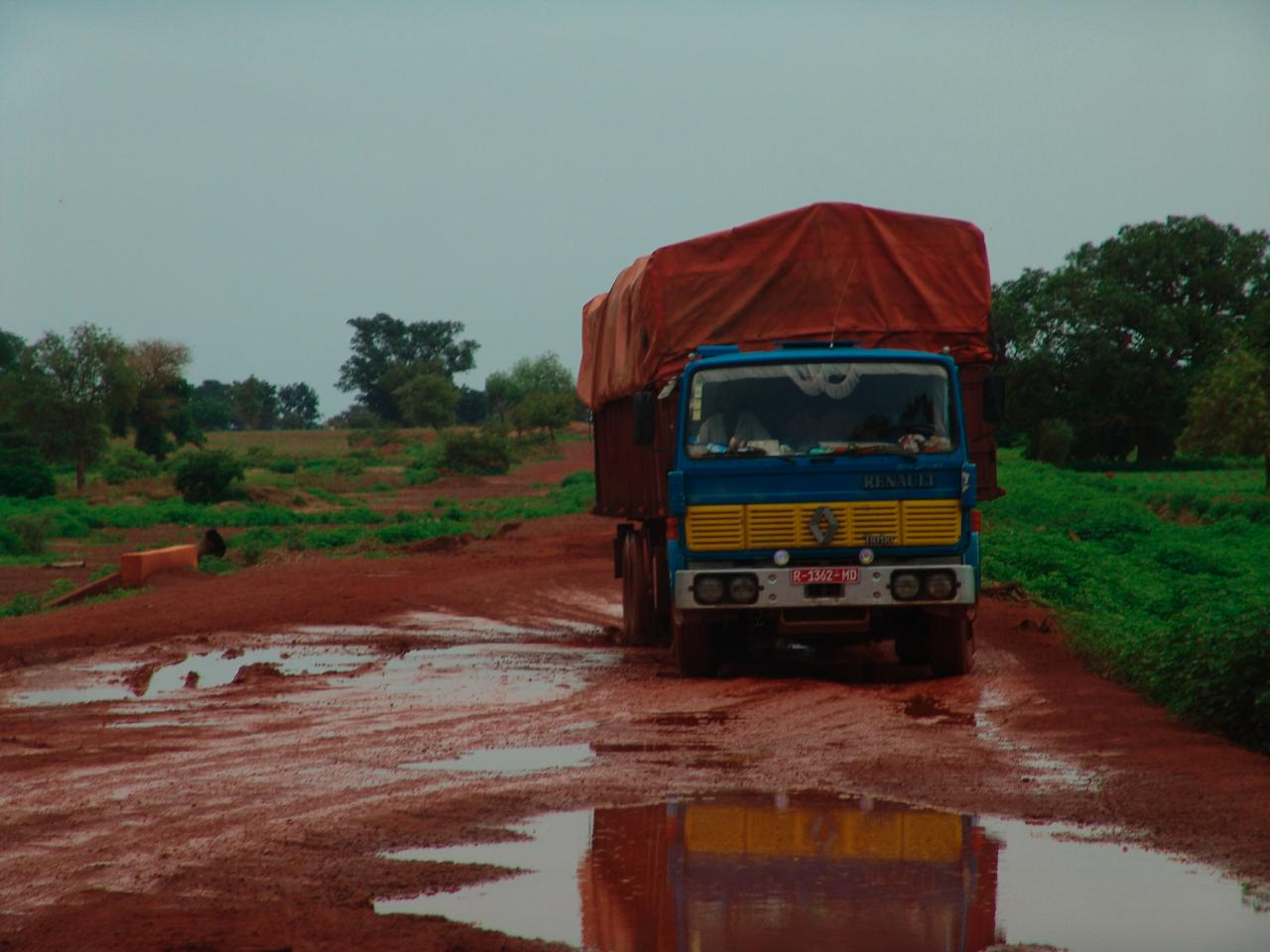 "Kayes: The bad part of the road to Kayes--2 hours of dirt and mud." Next image caption reads "This stretch is being paved, and soon pavement will be all the way from Dakar to Bamako." Note this is the beginning of the rainy season.